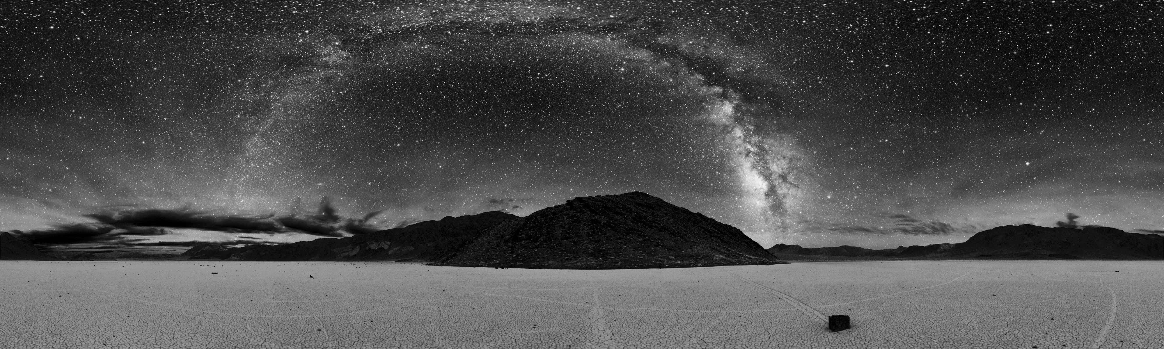 360° panorama of Racetrack Playa in Death Valley at night. The Milky Way is visible as the arc in the center. Retouched version of Image:Deathvalleysky nps big.jpg: Cropped top and bottom; contrast enhancement using curves and high pass; change mode to greyscale.